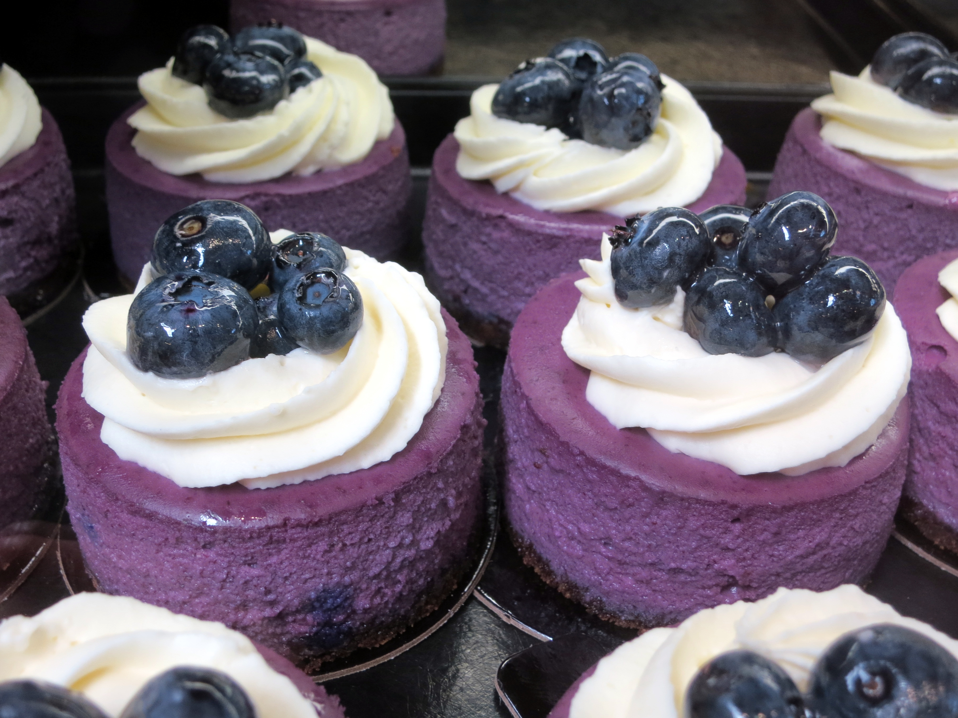 Blueberry cheesecakes